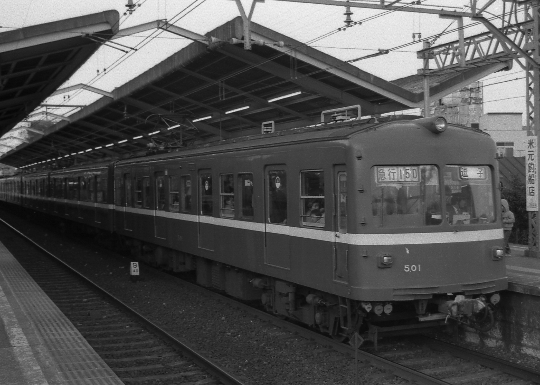 Keikyu 501 at Kawazawa Hakkei